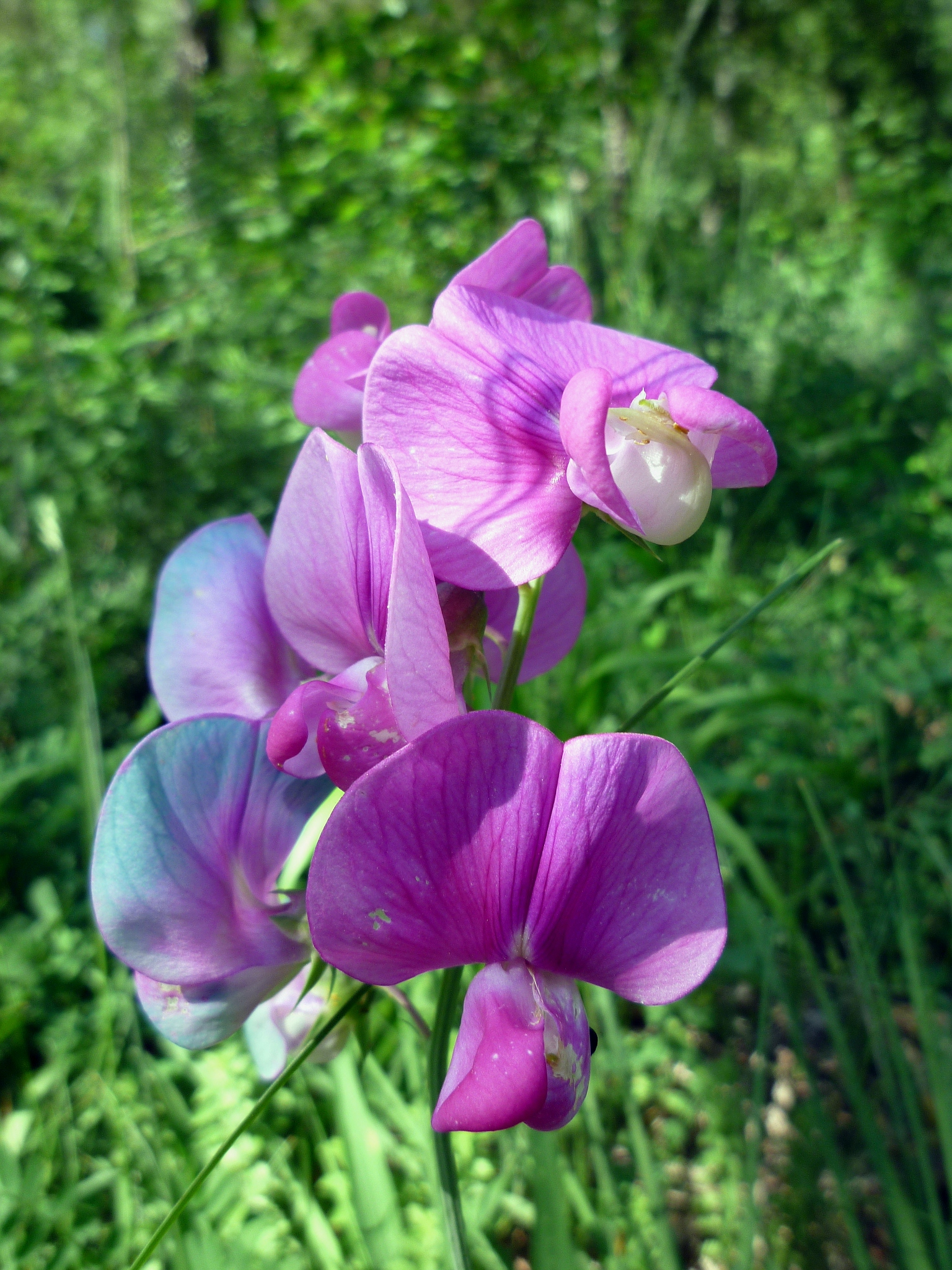 Lathyrus latifolius. In Torà (Segarra - Catalunya). To 570 m. altitude